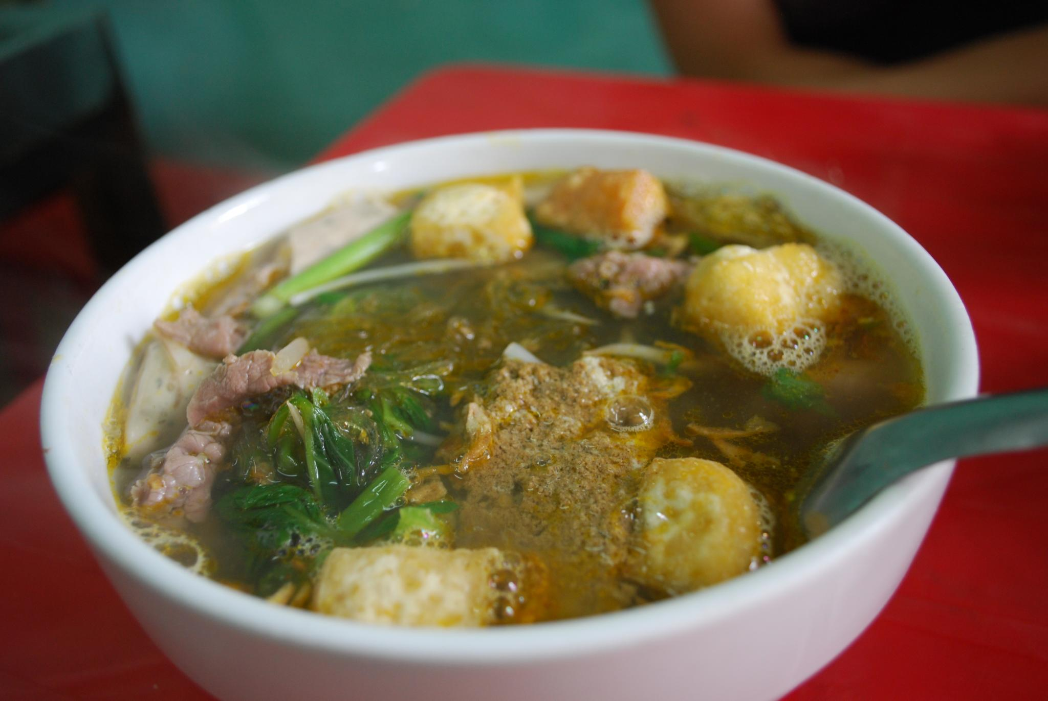 Bun Rieu Cua Nuoc - Ly Quoc Su VND20000 Absolutely the best tasting dish I've had in Vietnam! The rich crab broth is liberally flavoured with fried shallots and topped with a generous scoop of crab roe pate which looks like a mixture of crab roe and residue from the ground up crabs. Because of the fried shallots and the shellfish, it bears striking similarities to the 虾面 Hae Mee prawn noodles of Malaysia. Apart from the soup, the toppings included puffy fish cakes, a boiled pork sausage a bit like boudin blanc or weisswurst, but studded with sliced pig ears, beansprouts and water spinach. With much gesturing and repeating "mot soup, mot no soup" ("mot" is 1 in Vietnamese), the lady eventually said, "mot nuoc, mot kho". I nodded my head wildly agreeing, since i knew "nuoc" meant water or liquid, and from the beef jerky stalls with Bo Kho signs, I presumed "kho" meant dry! (The probably mean "bowl") As my reward, I was presented with a bowl of bún riêu cua kho with a sprinkling of peanuts. The lady even showed me how to squeeze lime over it, and add as much chilli shrimp paste as I liked. The dry version was also moistened with some crab broth, but with so little liquid, the crab paste made the sauce really intense. Amazingly good! It was no wonder that the food was as good as it was. You could tell by how packed the place was at lunchtime, and the fact that there was a huge pot of crab soup simmering away, which is a good indication of the volume of diners! Specialty Cakes skin at 59A Phung Hung, phone: 04. 9286519 or 0915 323 362 service to take place from 07h to 21h. You will enjoy the different feeling when eating crab cakes have here. - Google Translate Bún Riêu Cua - wikipedia